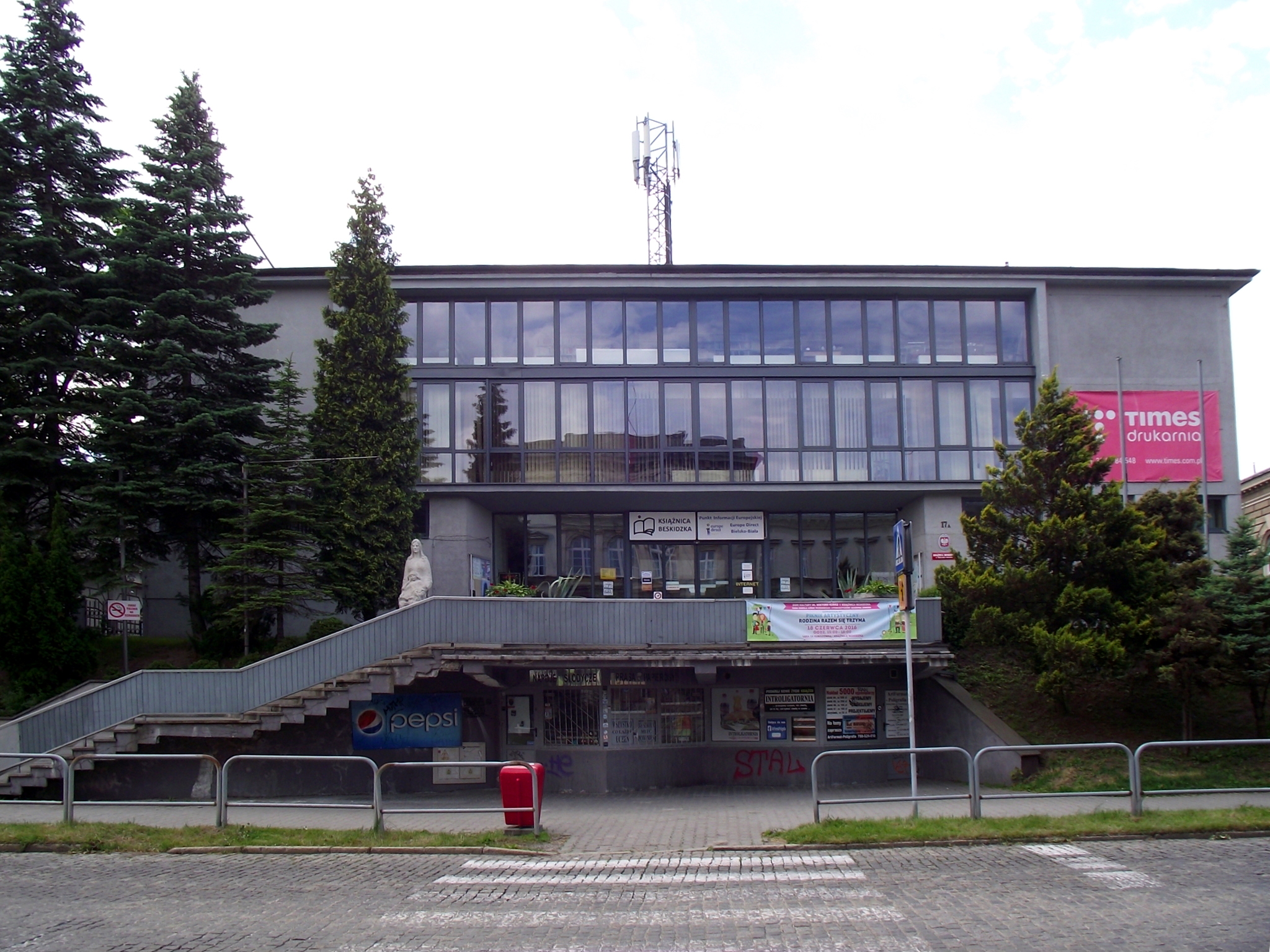 Library, Bielsko-Biala.